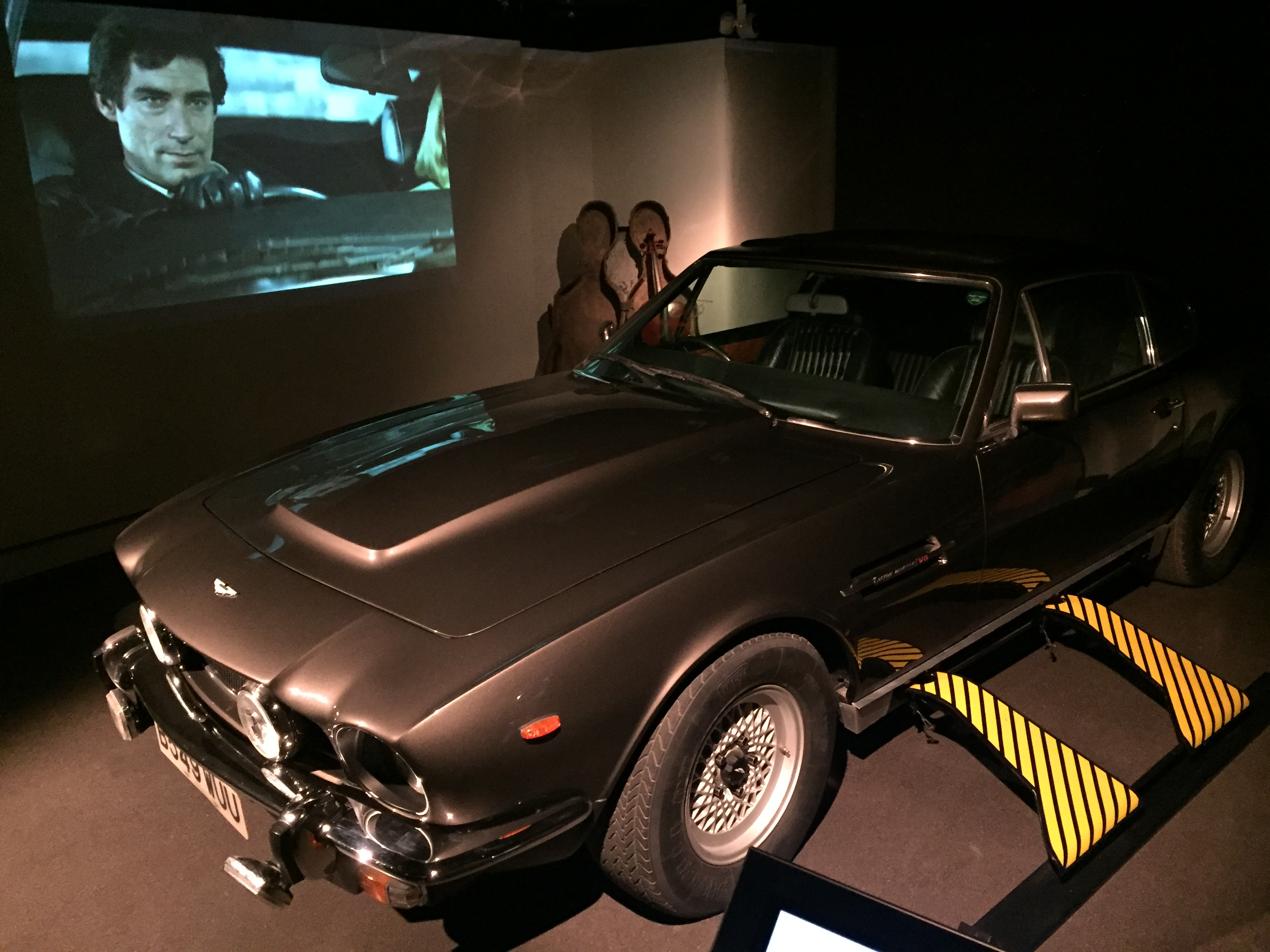 Aston Martin V8 Vantage from The Living Daylights film